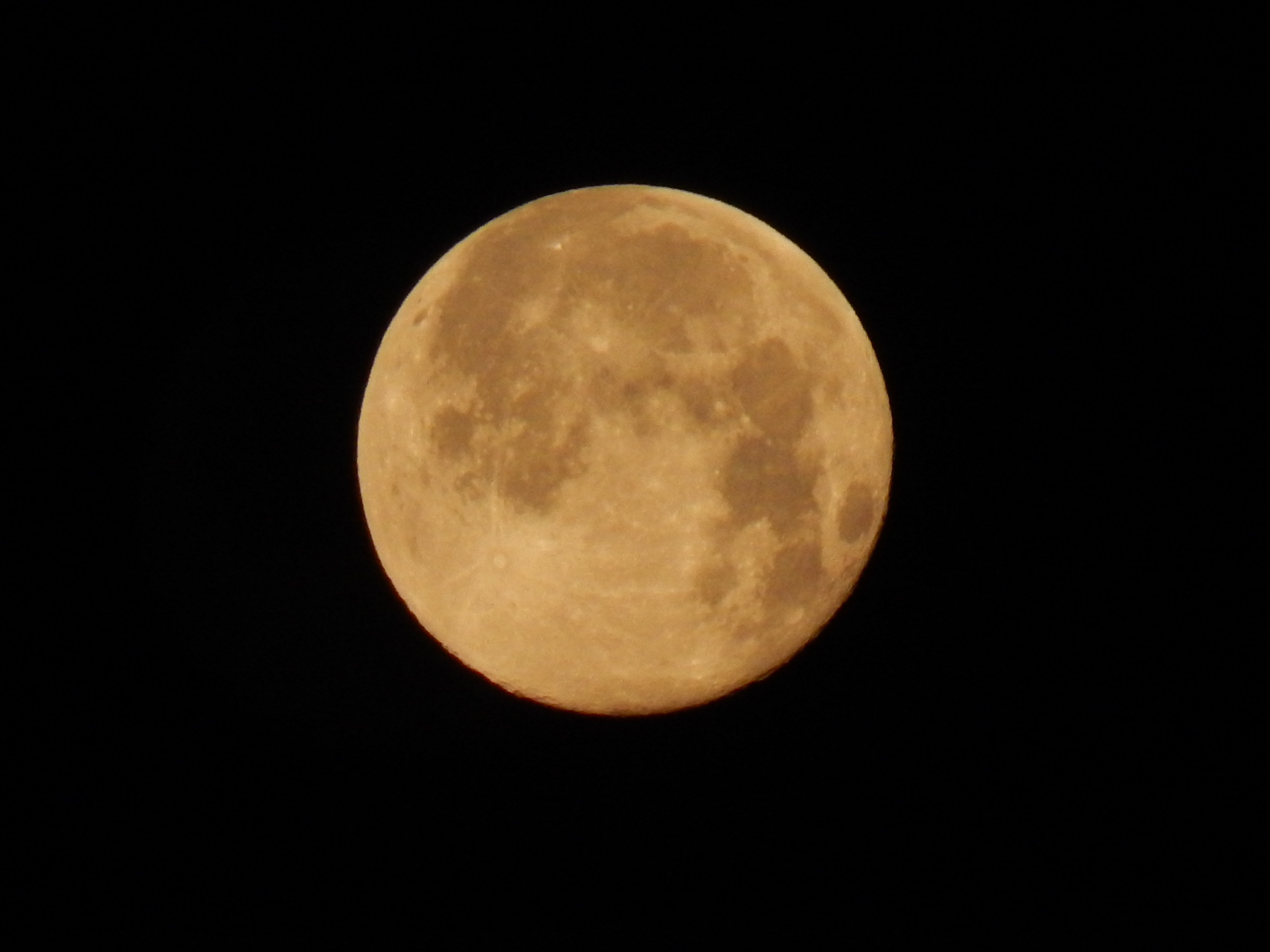 Golden full moon over Bochum, Germany.